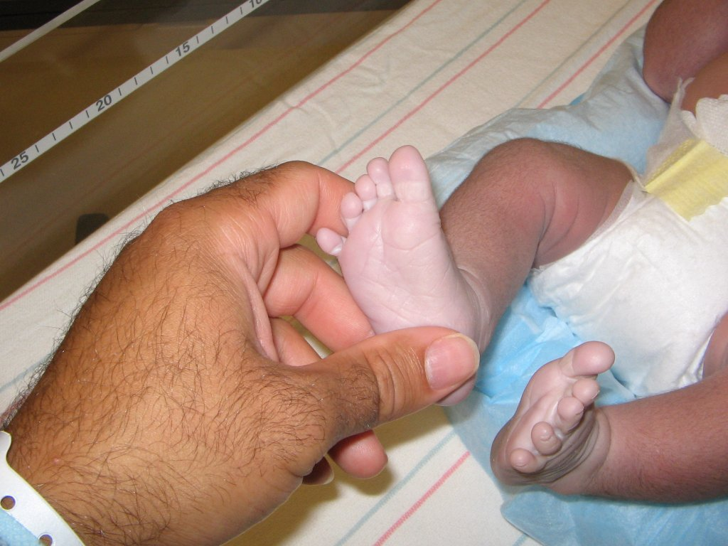 Someday these may be filling some mighty big shoes. For now, aren't they cute?